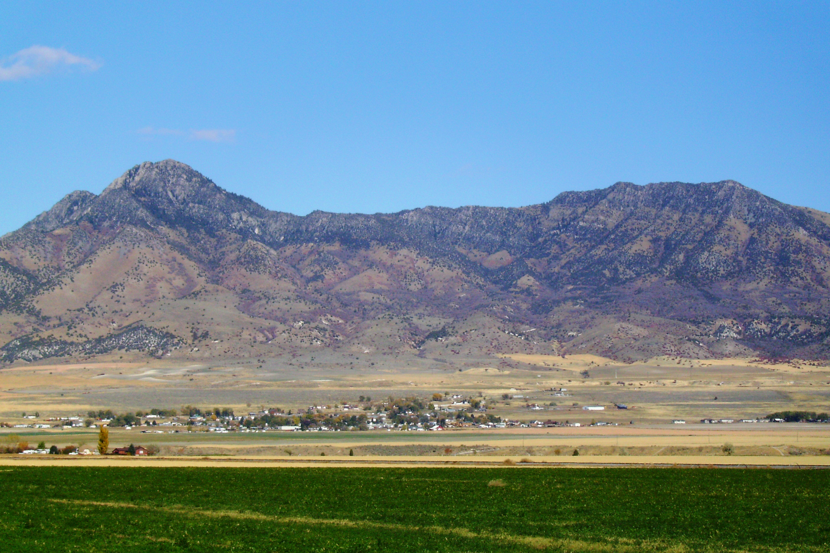 Plymouth, Utah, in Box Elder County with Gunsight Peak and Clarkston Mountain in background